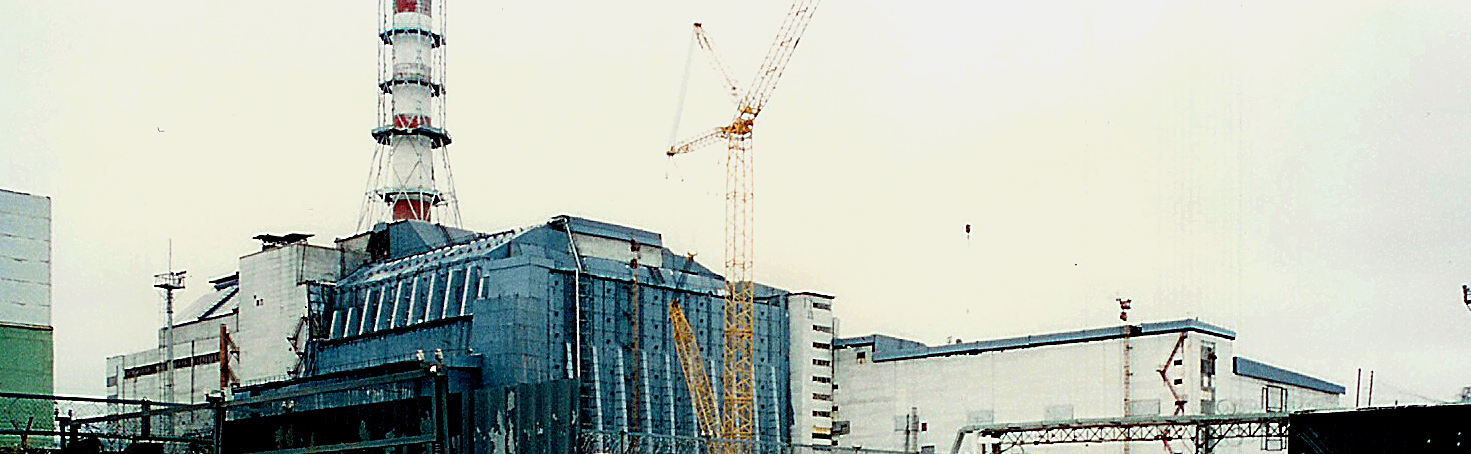 4th Reactor at the Chernobyl Nuclear Power Plant. Tube